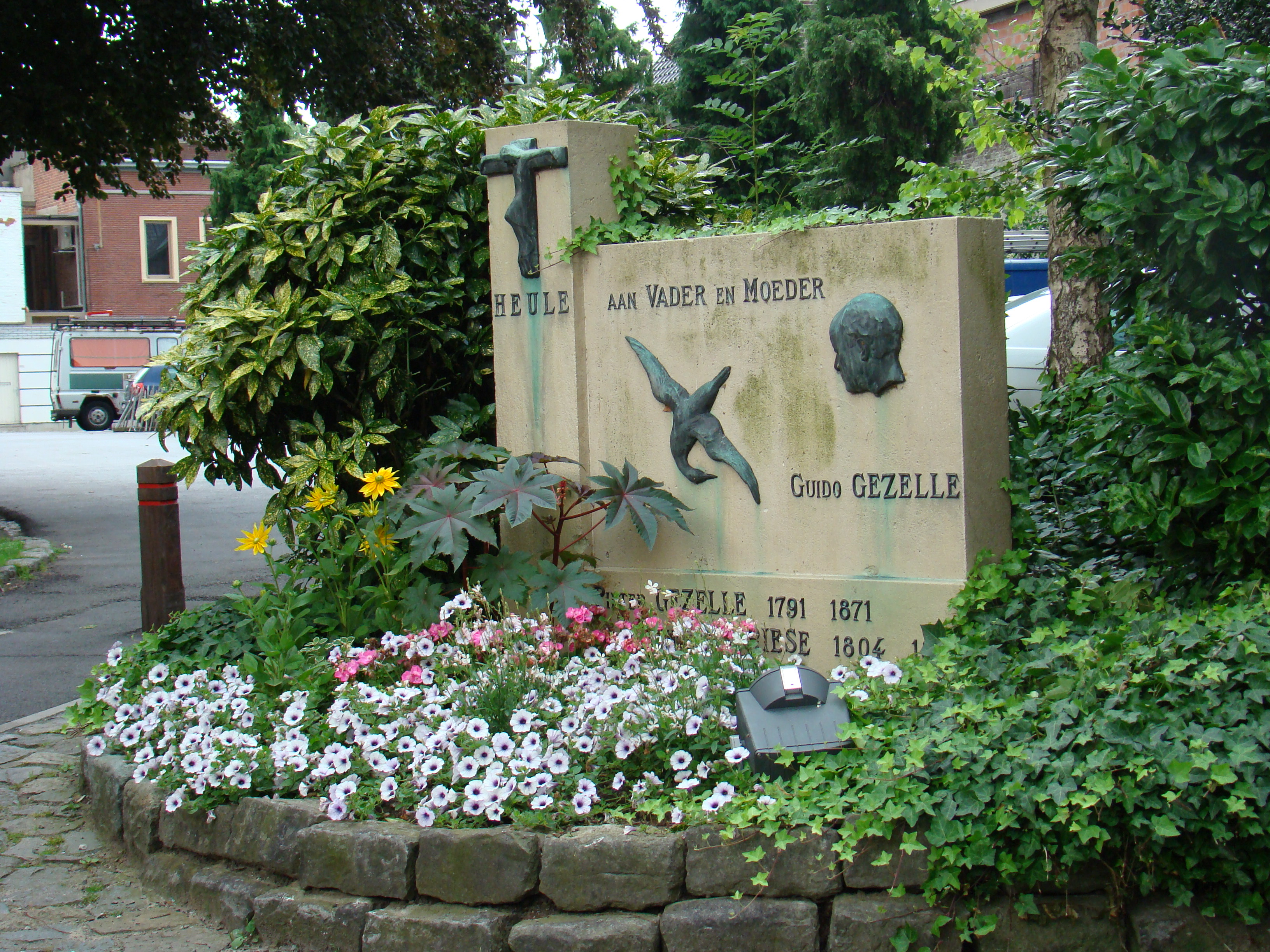 Heule , Kortrijk (West Flanders, Belgium)